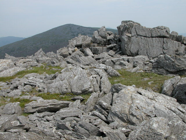 Crags on summit of Mynydd Graig Goch. Mynydd Graig Goch is situated at the western end of the Nantlle Ridge, though many walkers do not venture beyond Garnedd-goch which can be seen in the background. The summit of Snowdon is just visible between the rocky crags. In September 2008, this summit made national news after three walkers surveyed it after suspecting it was really just over 2000 feet and therefore officially classified as a mountain. Their survey has been recognised by Ordnance Survey thus bringing the total of mountains in Wales to 190. Maybe now it has been elevated to mountain status it will attract more walkers to its rocky summit.